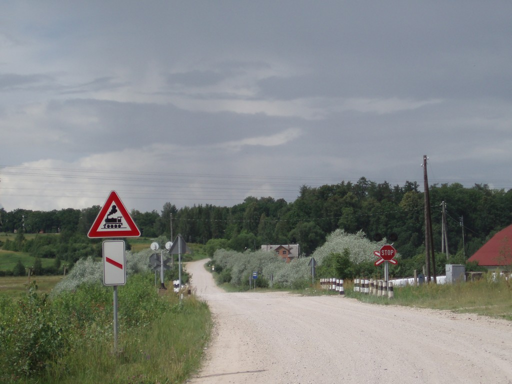 Regional road P83, Latvia.